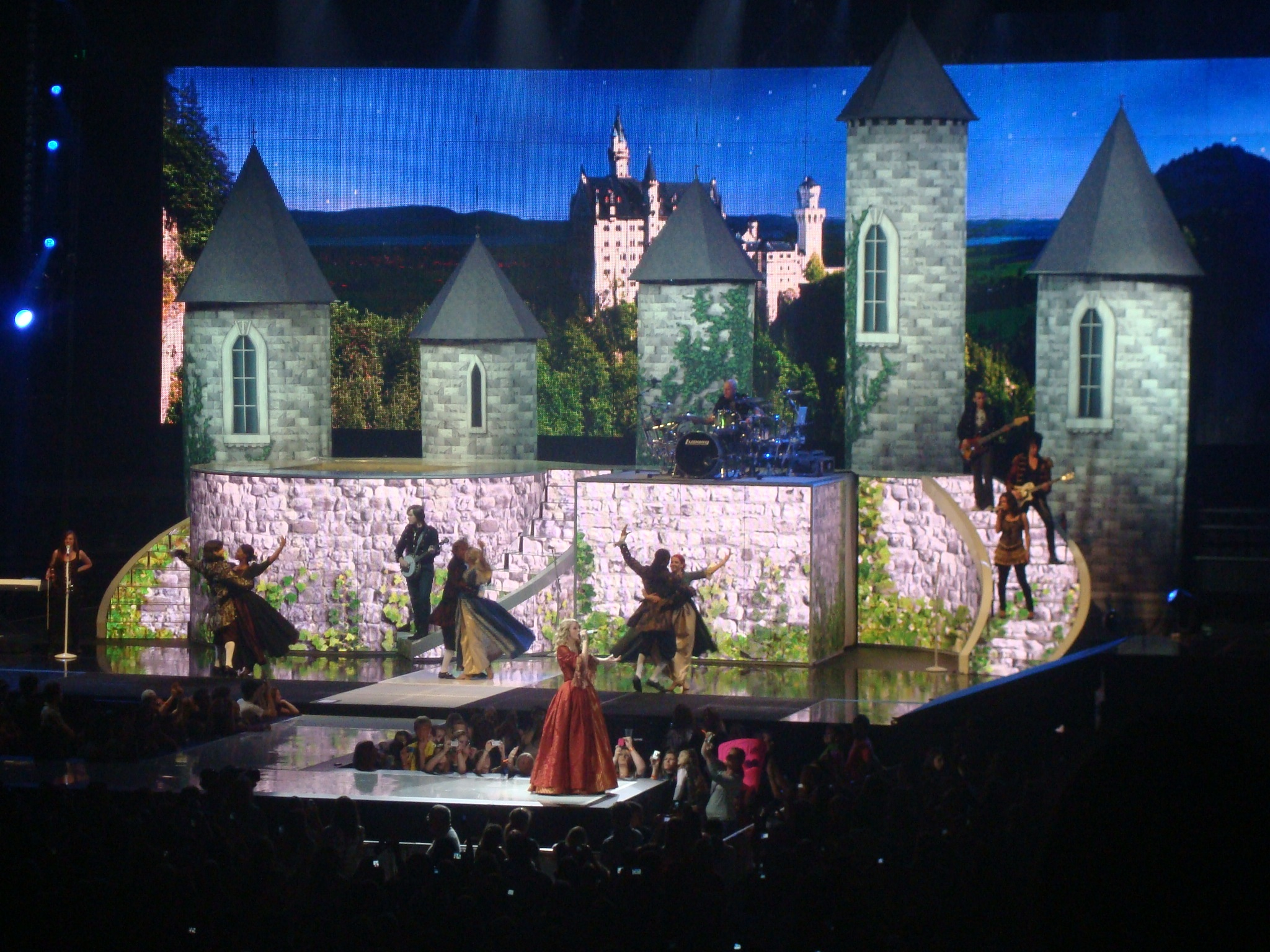 Country pop singer Taylor Swift singing on her Fearless Tour in Austin, Texas.